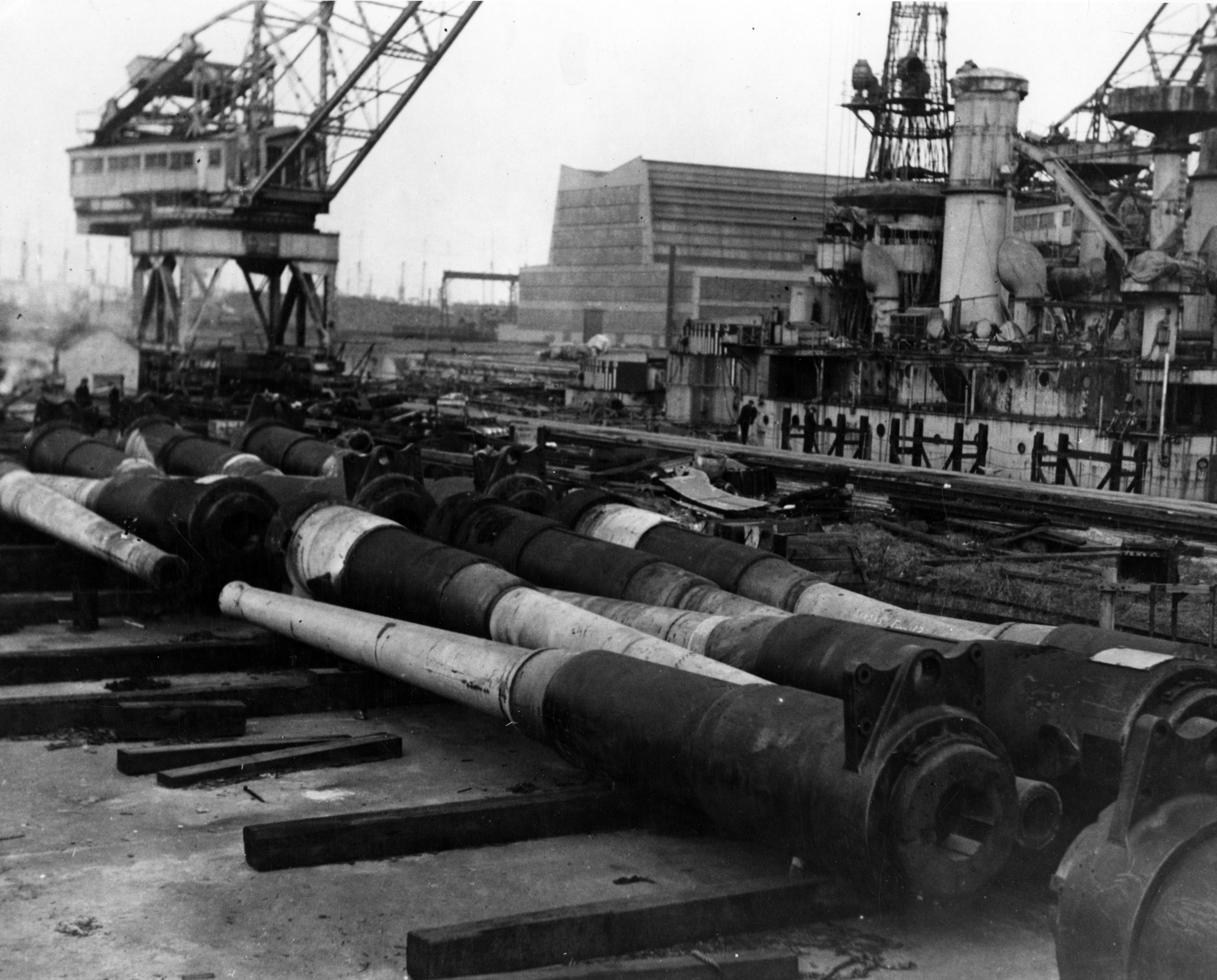 Scene at the Philadelphia Navy Yard, Pennsylvania, December 1923, with guns from scrapped battleships in the foreground. One of these guns is marked "Kansas", presumably an indication that it came from USS Kansas (BB-21). Ship being dismantled in the backround is USS South Carolina (BB-26). Based on the types of ships being scrapped, the guns probably include 12"/40 Marks 3 and 4 and 12"/45 Marks 5 and 6. Original caption: "Photo # NH 69035 Guns of scrapped battleships at Philadelphia Navy Yard, December 1923" — removed caption